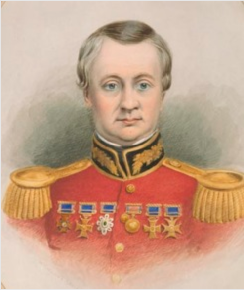 Kenneth Snodgrass (1784–1853), Acting Governor of Tasmania from 31 October 1836 to January 1837, and Acting Governor of New South Wales from 6 December 1837 to 23 February 1838.